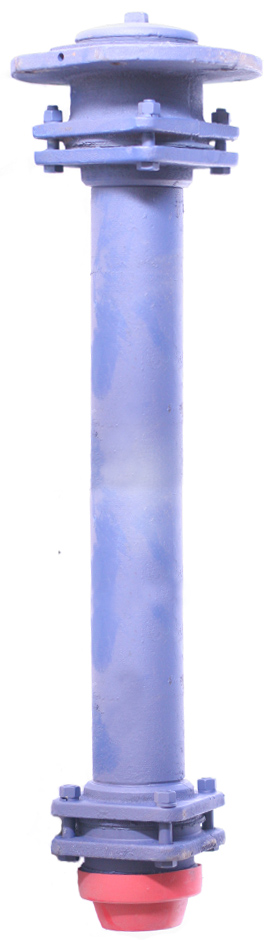 Hydrants fire pig-iron GOST 8220-85